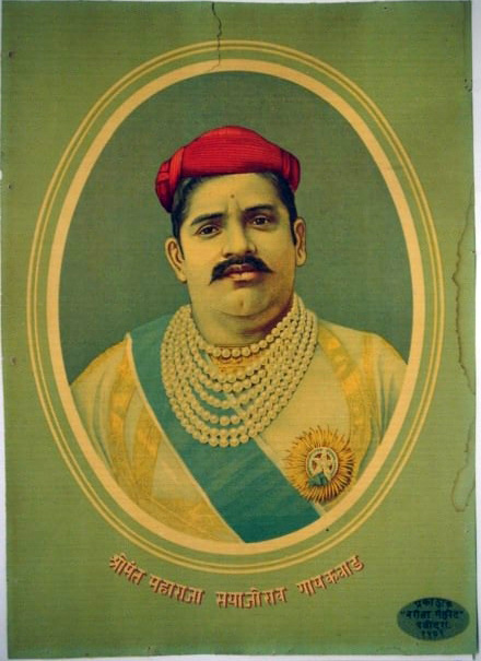 A print of the Gaekwar of Baroda, 1910's*